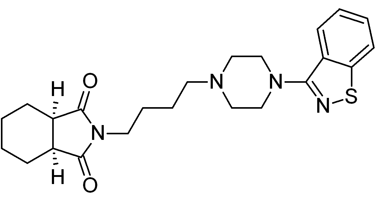 Perospirone.png